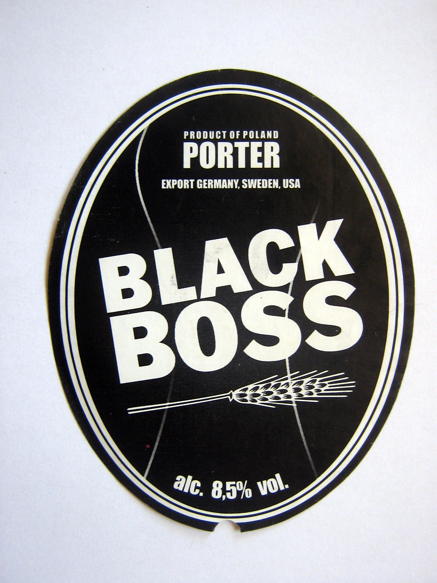 Beer Label of Black Boss Baltic Porter of Poland